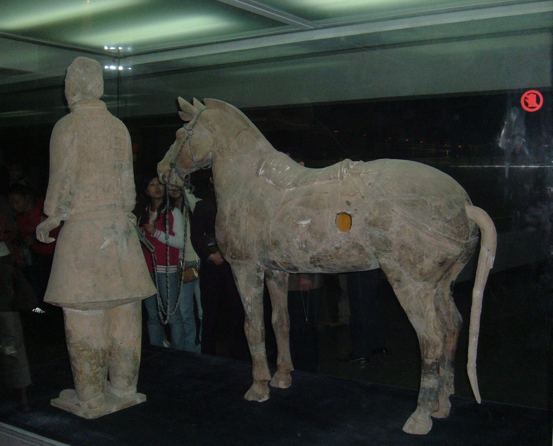 Side rear view of a warrior with horse on display in the exhibition hall of Pit 2 of the Mausoleum of the First Qin Emperor near Xi'an, PRC.